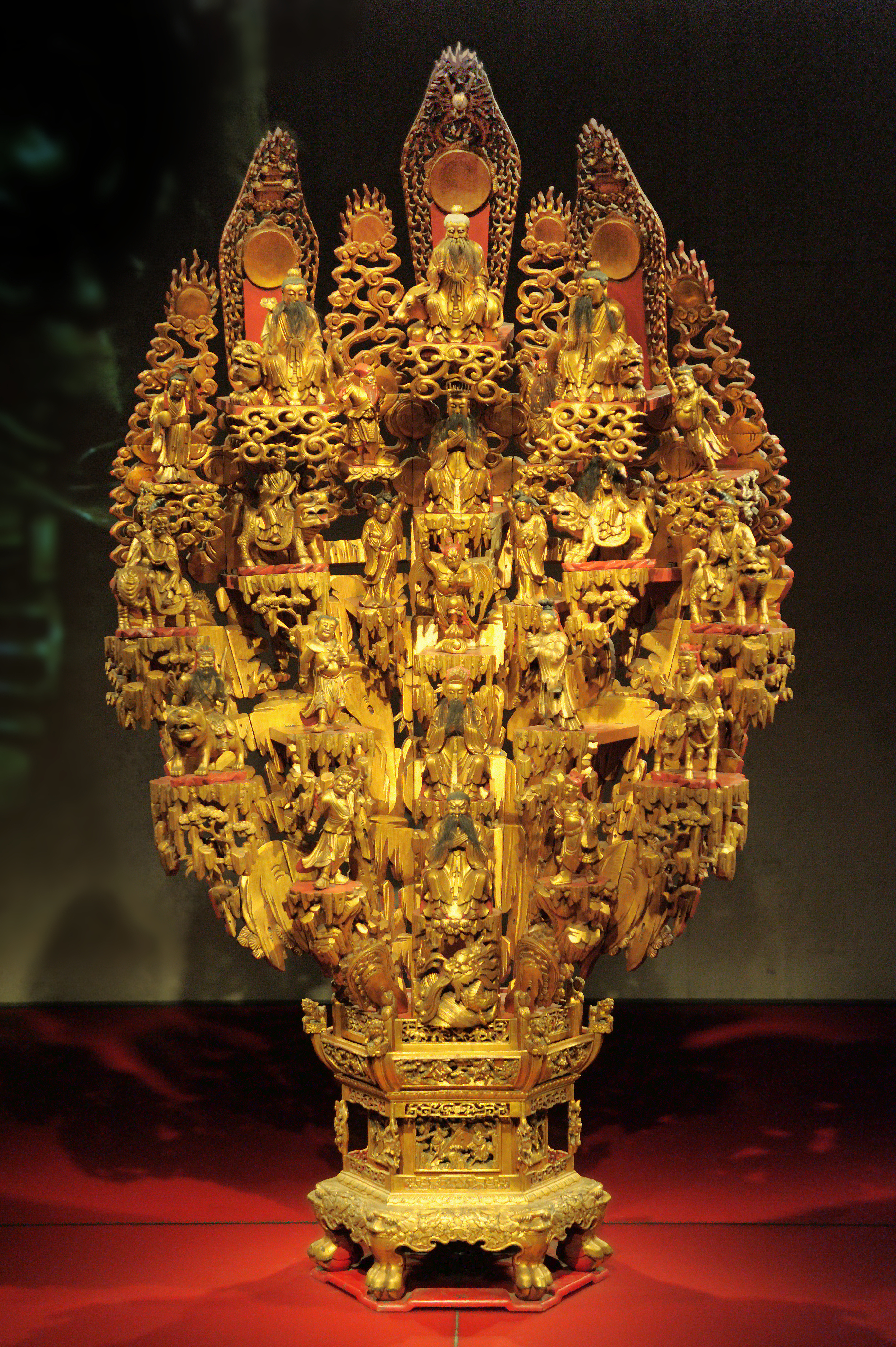 Mountain of the Immortals representing 23 deities of the Taoist pantheon. China, 19th century, gilded wood. (Collection: Museum Volkenkunde, Leiden.)